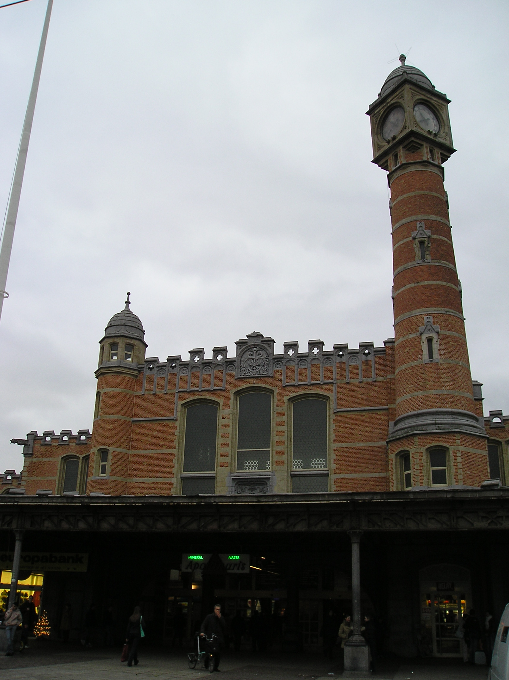 Part of the main façade of Gent-Sint-Pieters railway station in Ghent